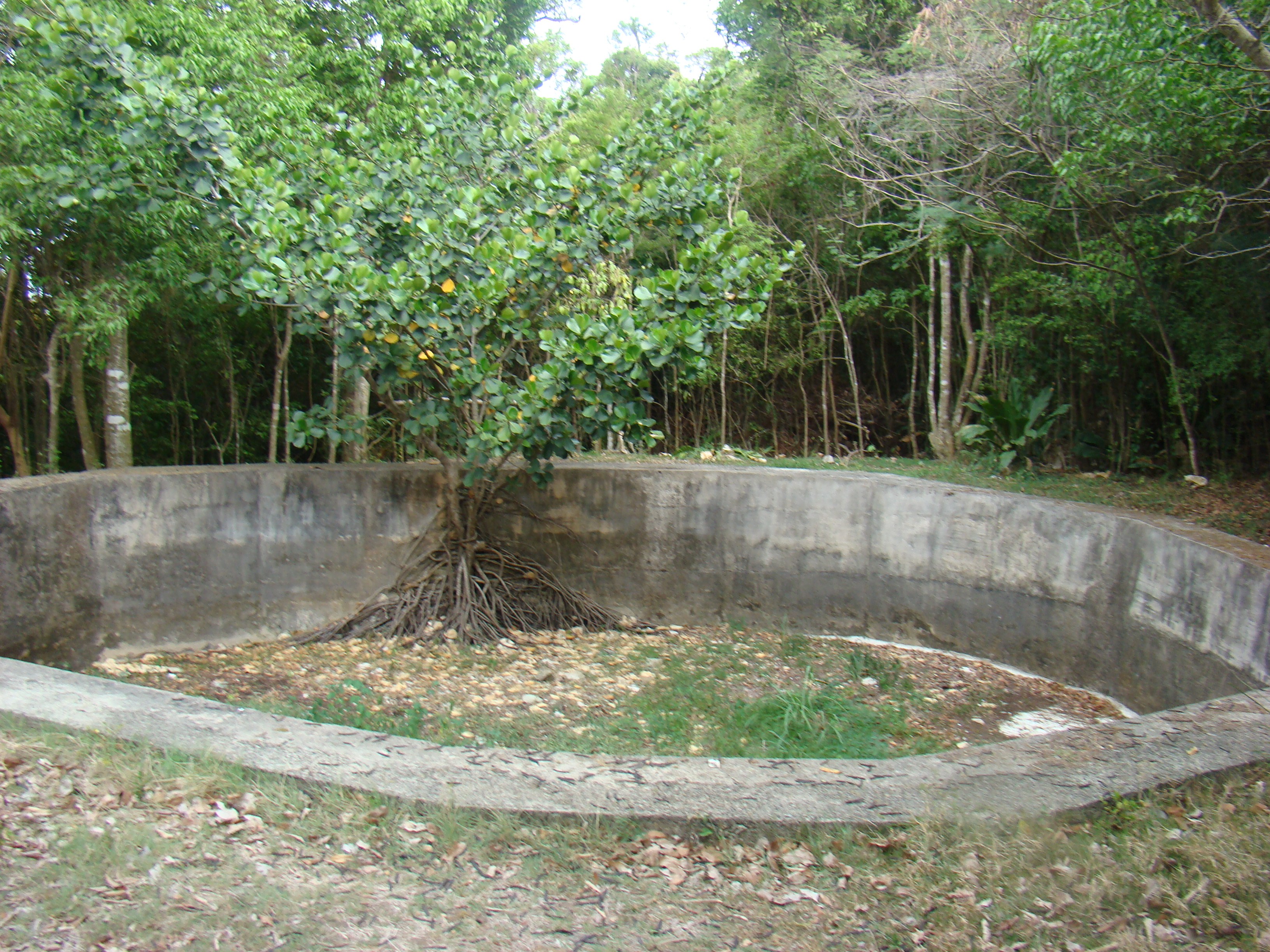 View of storage vault at Catherineberg Sugar Mill Ruins located in the Virgin Island National Park on Saint John, U.S. Virgin Islands. The ruins are an example of an 18th century sugar and rum factory. In the 1733 slave revolt, Catherineberg property was the headquarters of the Amina warriors.